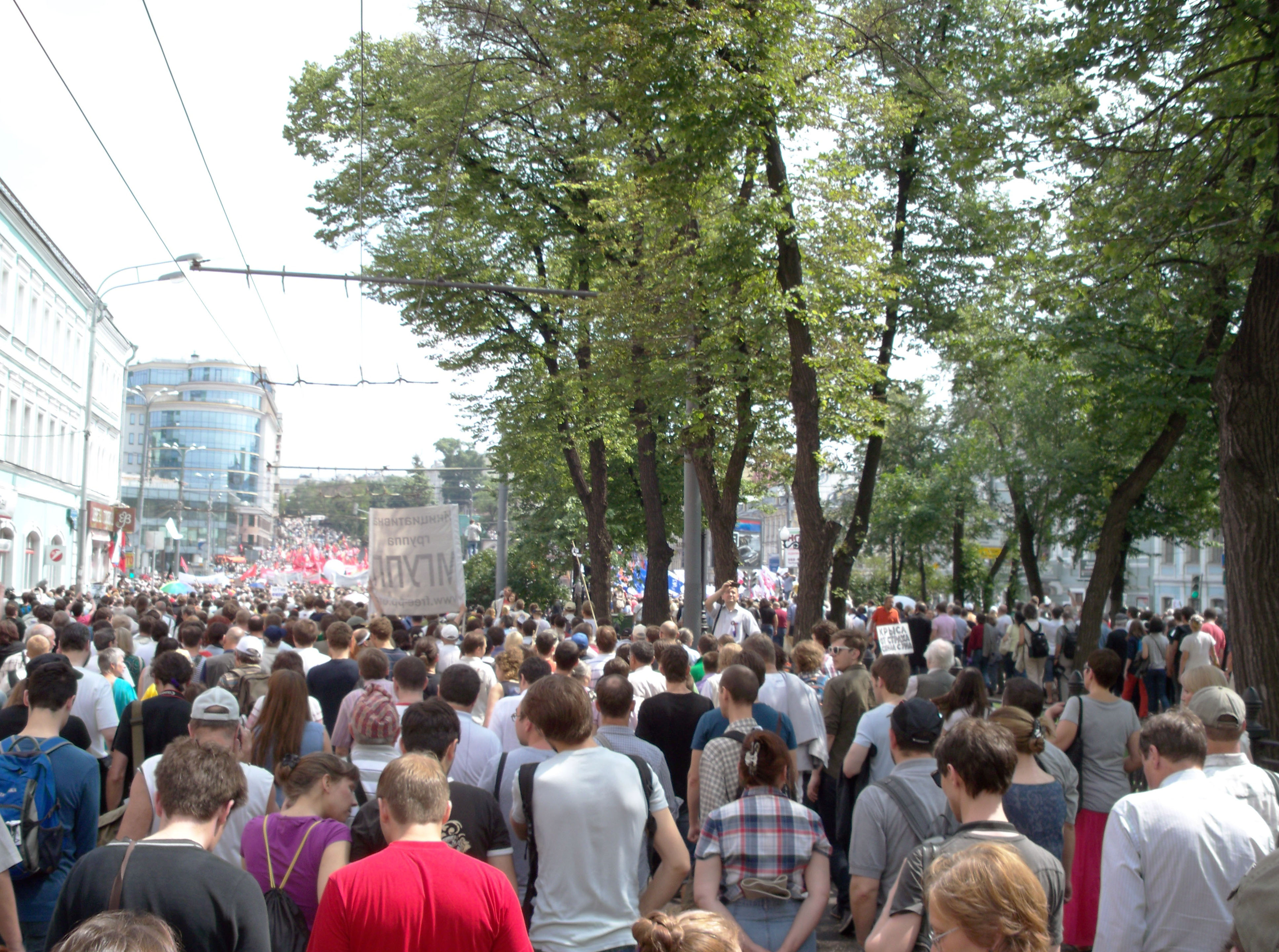 Moscow rally 12 June 2012 on Petrovsky Boulevard.